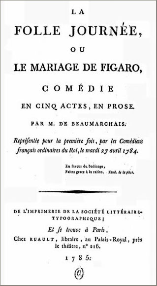 Title page of first edition of La Folle journée ou Le Mariage de Figaro. Image cleaned up by uploader, removing library stamps and specks. Date of publication : 1785 Source: Bibliothèque nationale de France